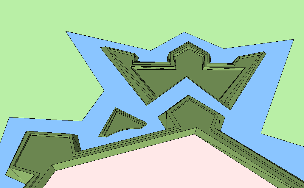 Crownwork, part of fortifications